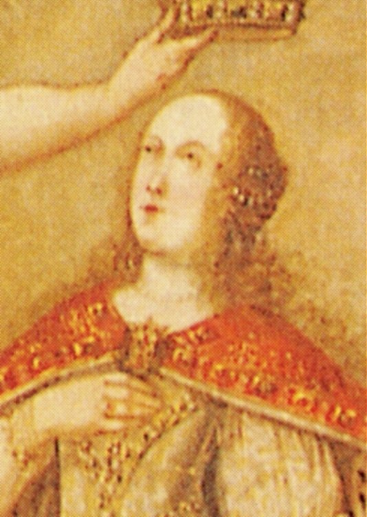 Princess Antonia of Württemberg (1613-1679). Portrait detail from the top of the left outside panel of the triptych she commissioned for the church at Bad Teinach, noted for its extensive Christian Kabbalist symbolisism.